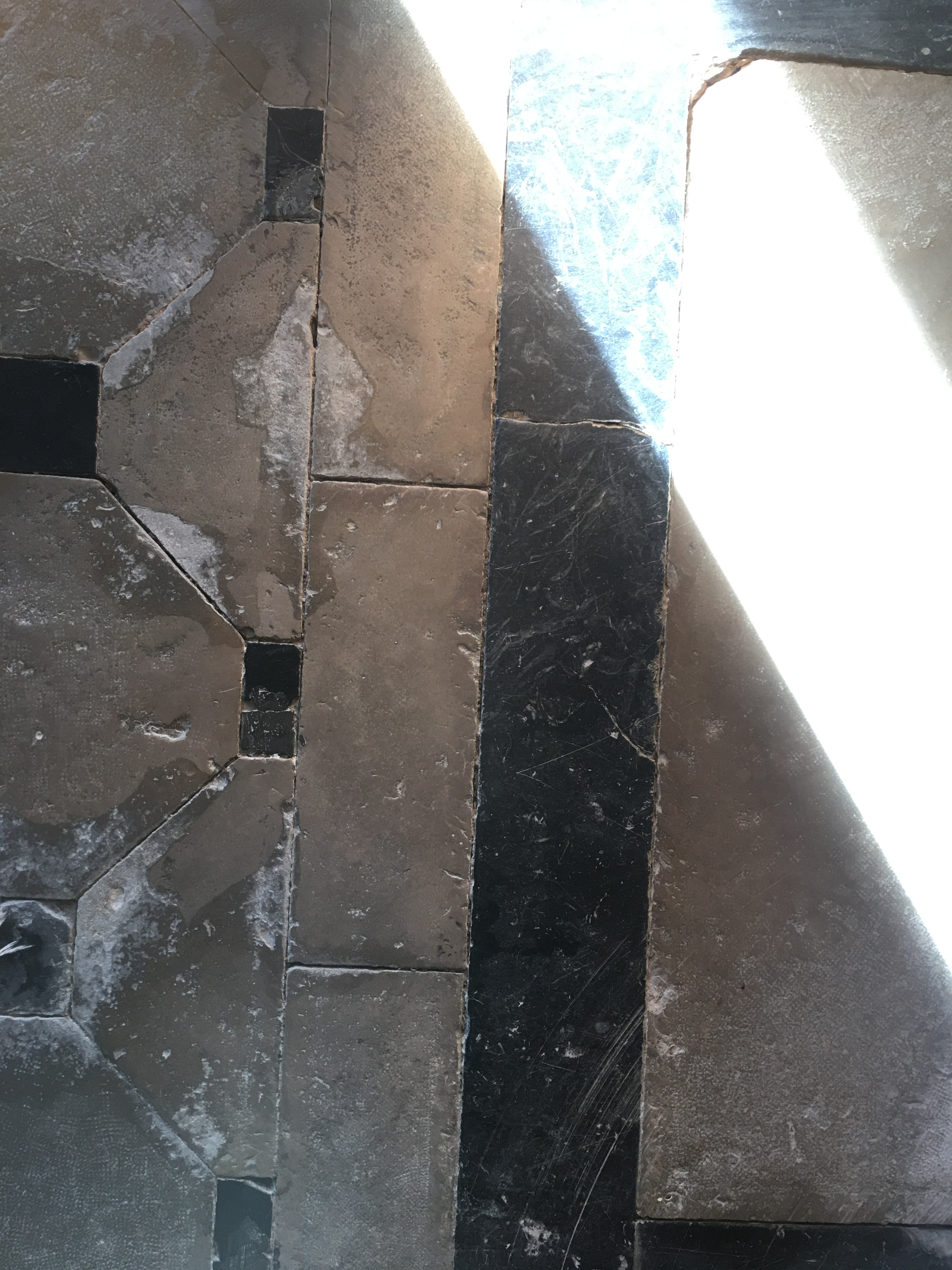 detail du calepinage du Vestibule